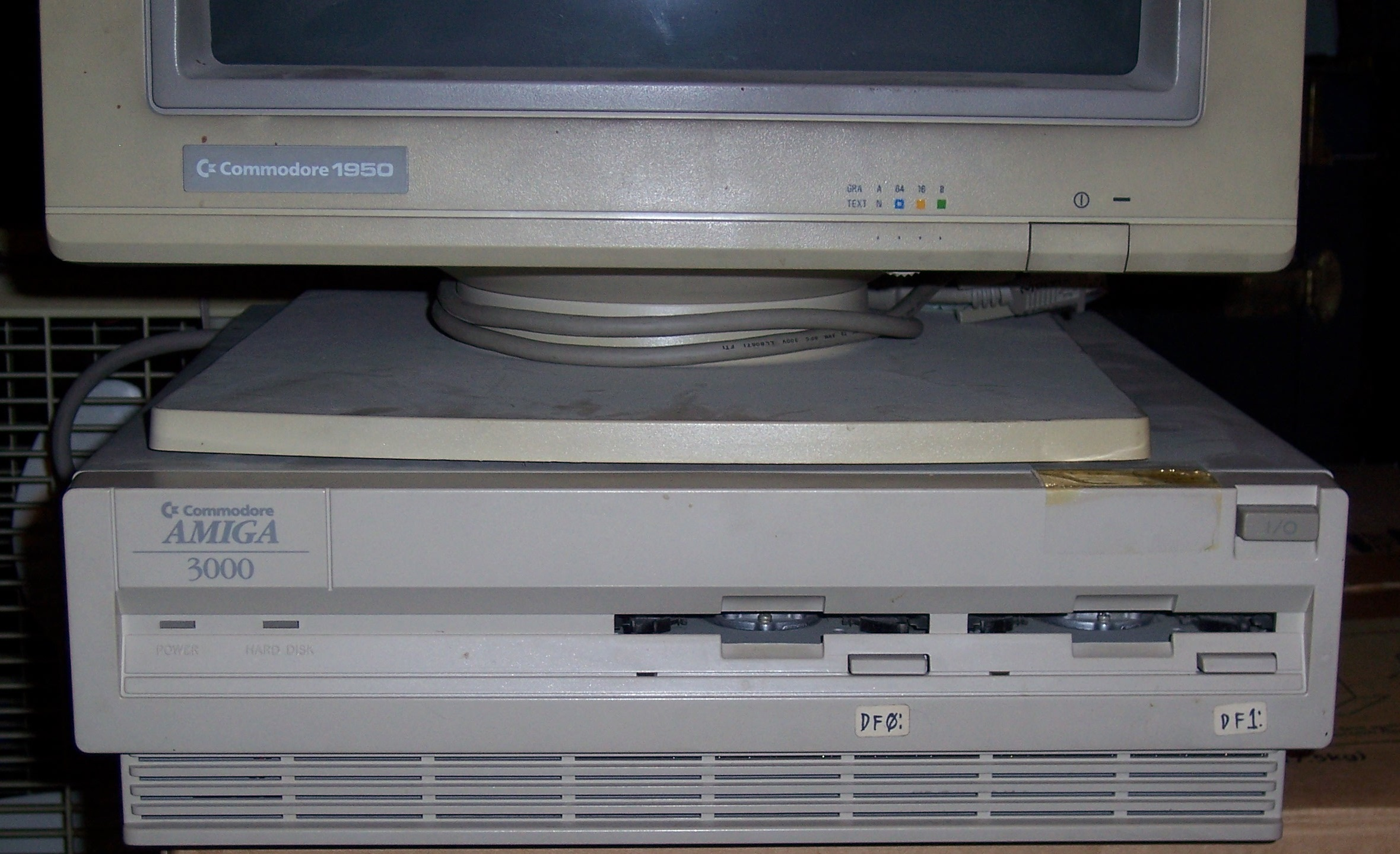 An Amiga 3000 and an Commodore 1950 CRT monitor. Author: Joe Smith. Photo of his personal property.